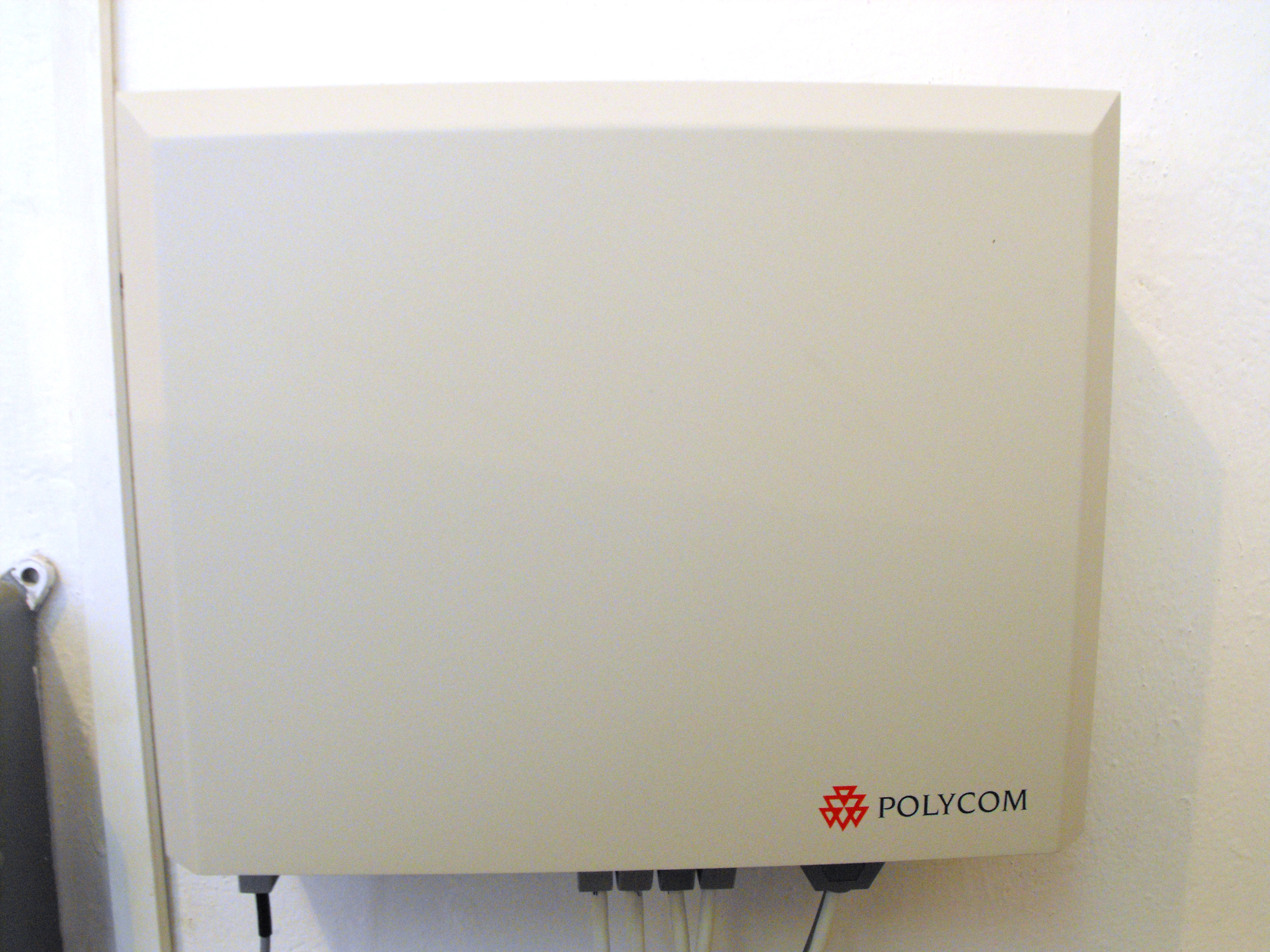 Wireless Mobility Server aka DECT Controller, wall mount version instead of rack mount version.